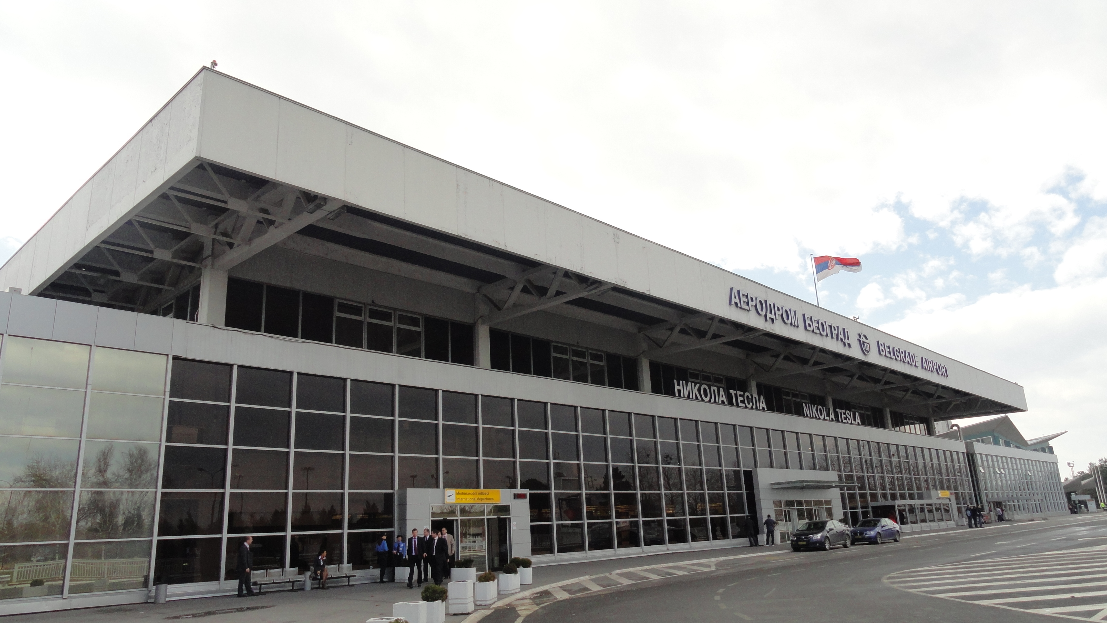 Nikola Tesla Airport